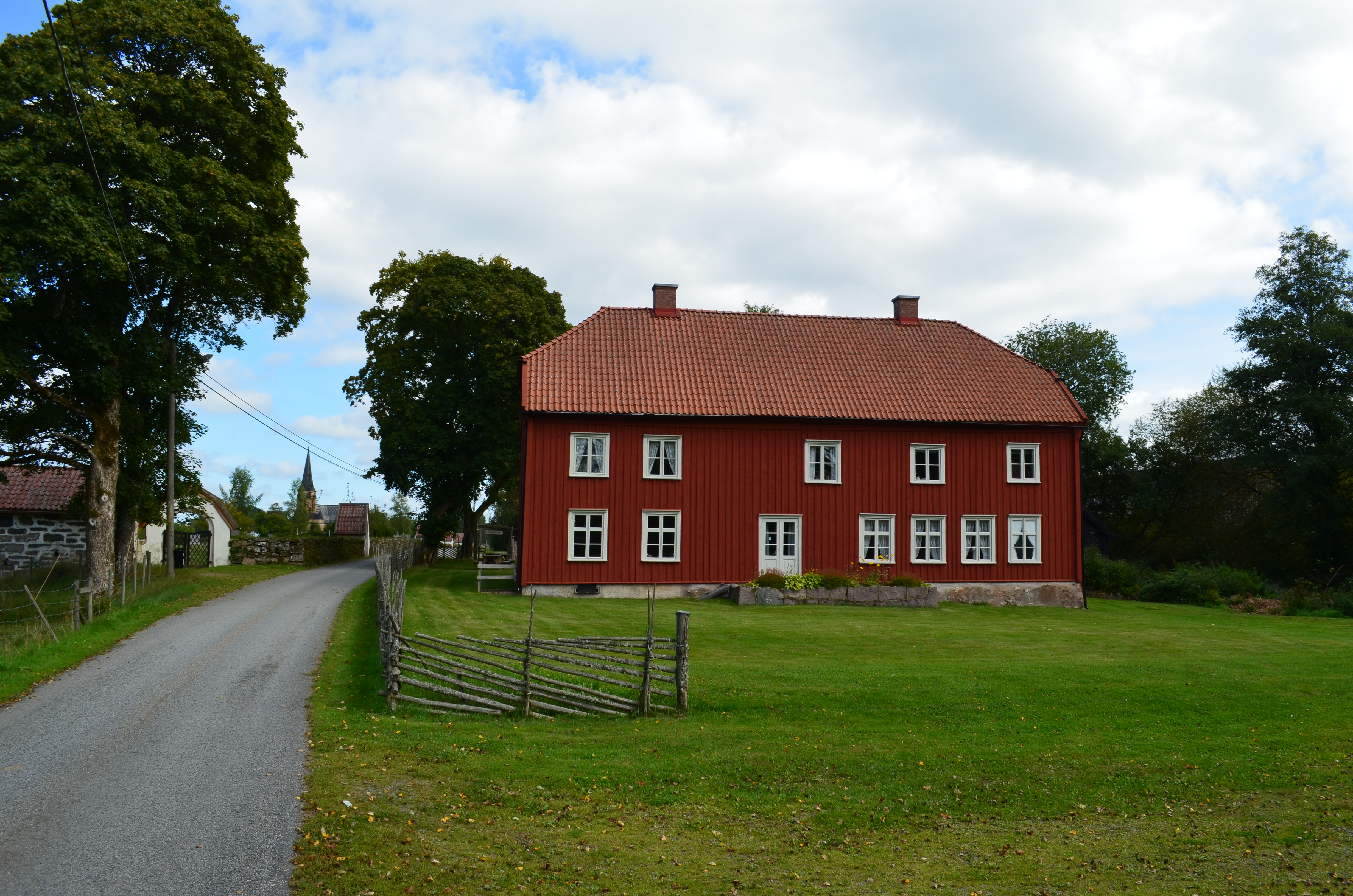 Seglora old rectory/vicarage seen from the west. To the left in the picture you can see Seglora new church and the churchyard.